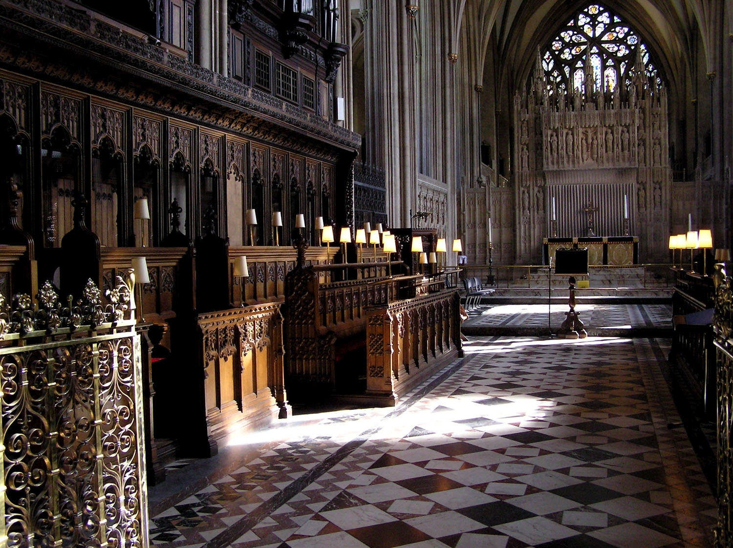 The choir stalls of Bristol Cathedral, Bristol, England. The high altar lies beyond.